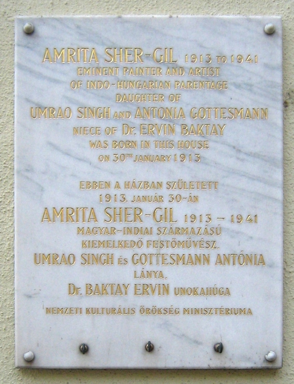 Amrita Sher-Gil's plaque in Budapest, at her place of birth.